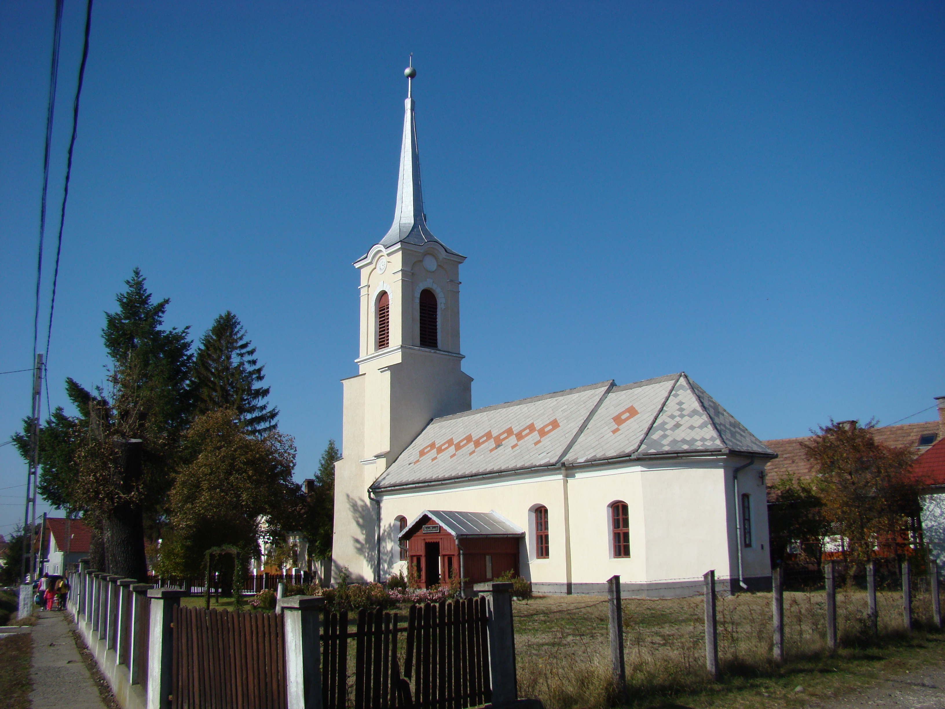 Calvinist Church in Gurghiu (Görgényszentimre), Romania